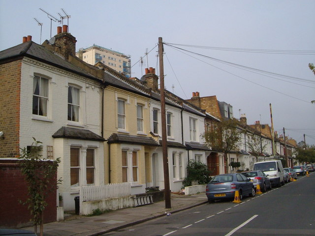 Hamble Street, Sands End Victorian houses on a street running northwest off Townmead Road. Peering over the rooftops is the 20-storey Barton House on Stephendale Road.